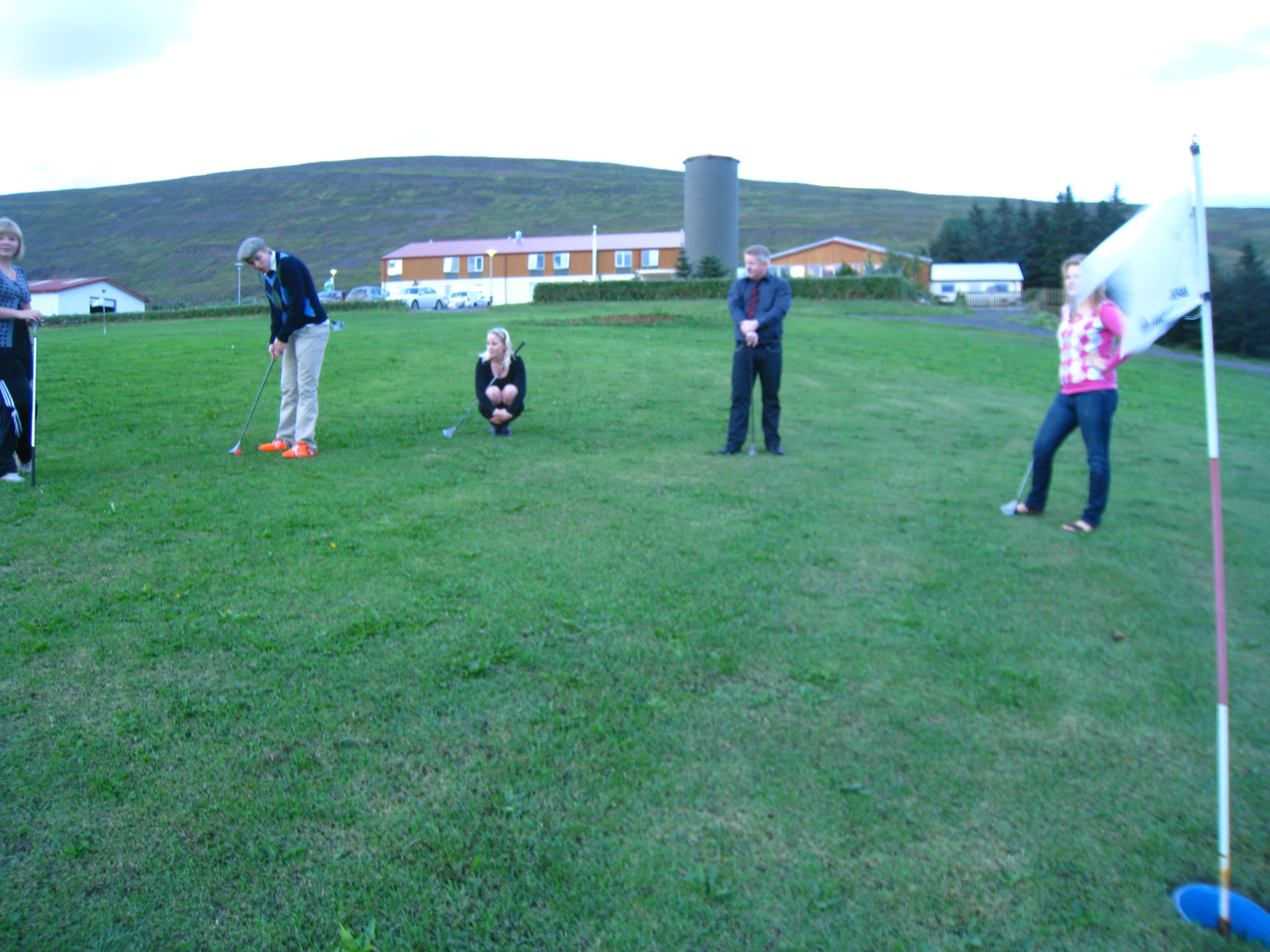 Swingolf Flight on an icelandic farm